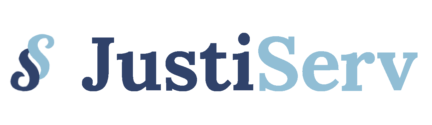 JustiServ logo